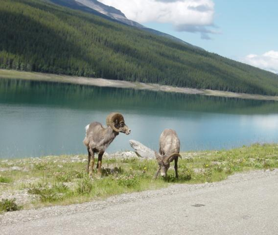 Bighorn sheep at Medicine Lake, Jasper National Park, Alberta, Canada Creator: User:Jamieli